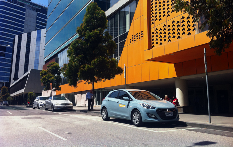 Showtime - Flexicar carsharing location in the Docklands, Melbourne AUSTRALIA Copyright Flexicar (Hertz Australia) 2013